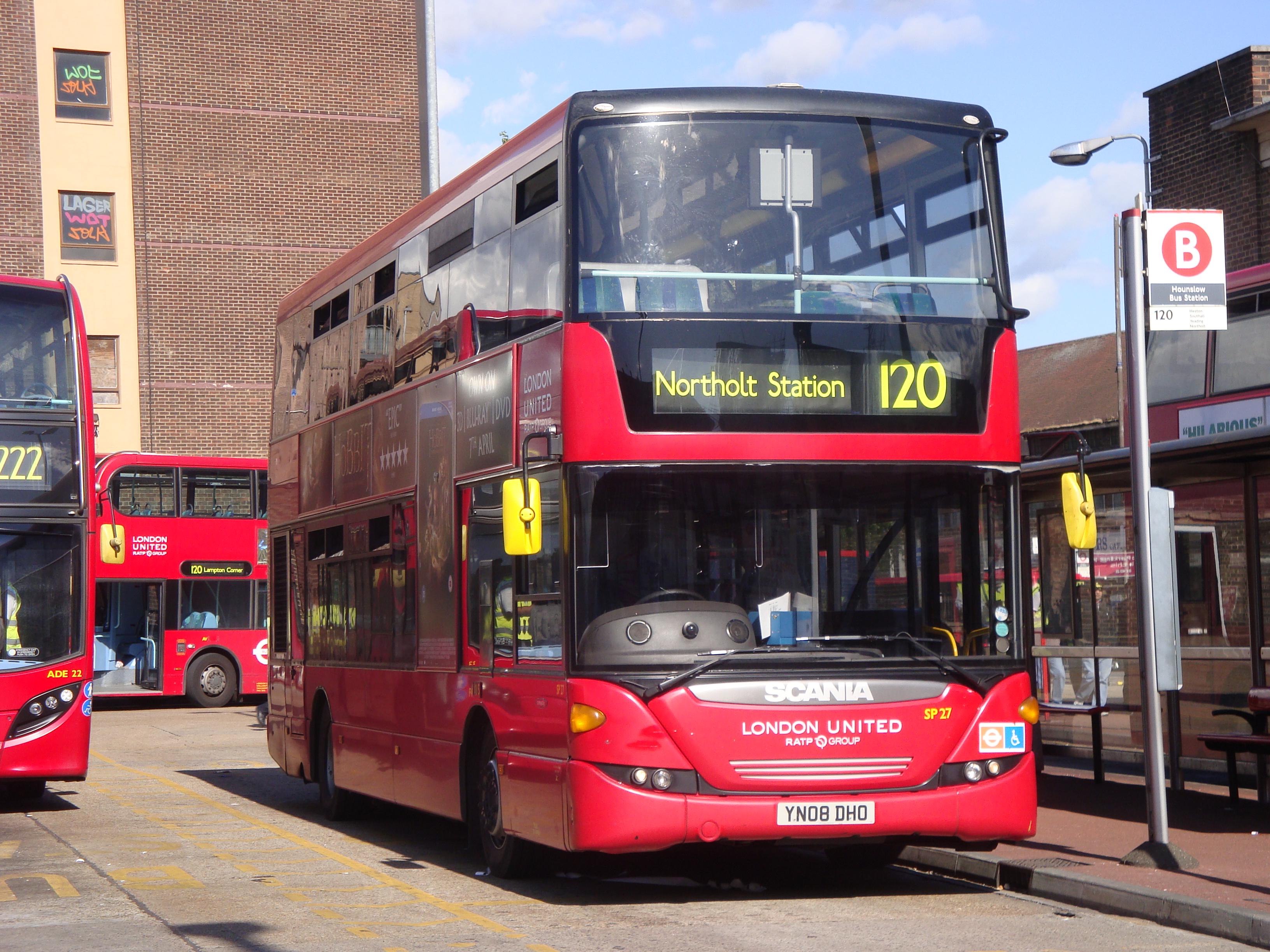 London United SP27 on Route 120*, Hounslow Bus Station